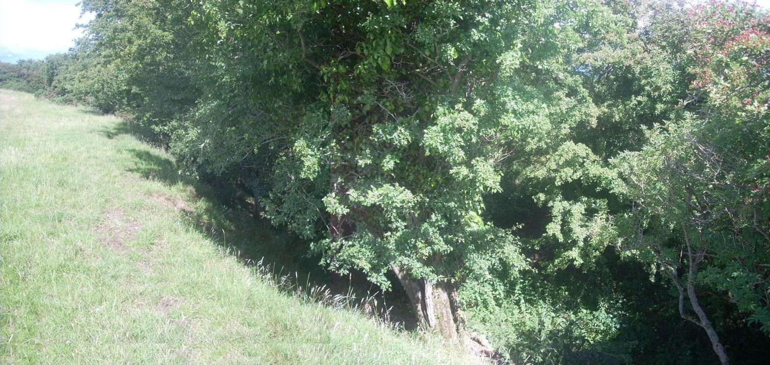 A view of the henge at Dún Ailinne from within.